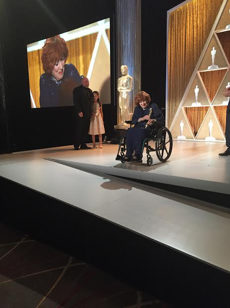 Maureen holds her Oscar with Grandson Conor FitzSimons and granddaughter Baylee nearby. Photo take by me from my table near the stage. It was an incredible moment.